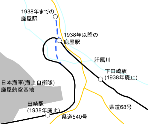 Abstract map around Kanoya station, Kanoya, Kagoshima, Japan. First Kanoya station had dead-end layout and was moved in 1938 to lator position to allow through operation. Second Kanoya station was abondoned in 1987. The map is not to scale.